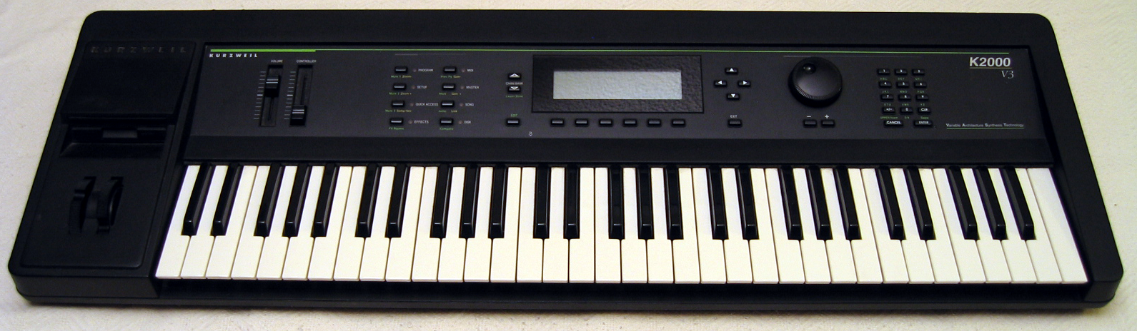 A picture of a Kurzweil K2000 synthesizer. This picture was taken at a slight front angle.